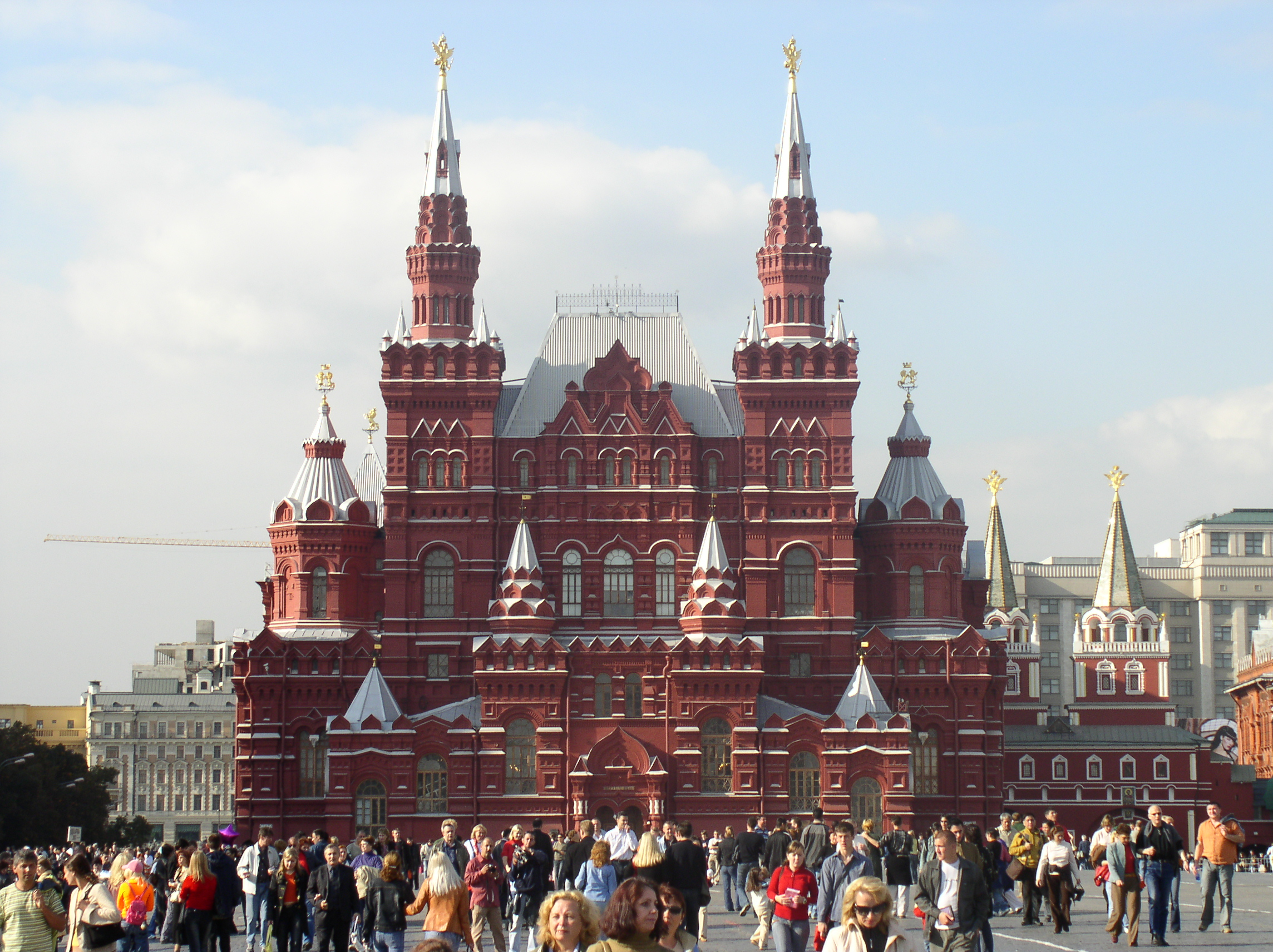 State Historical Museum. Moscow, Russia.